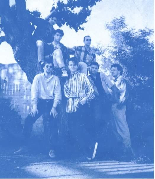 The Mex Mark IIIbis